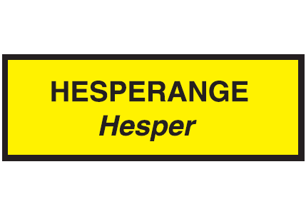 Diagram of road signs of Luxembourg